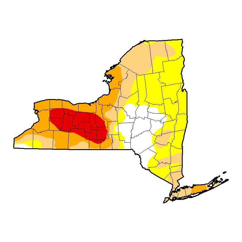 US Drought Monitor map image update for New York State during en:2016 New York drought.